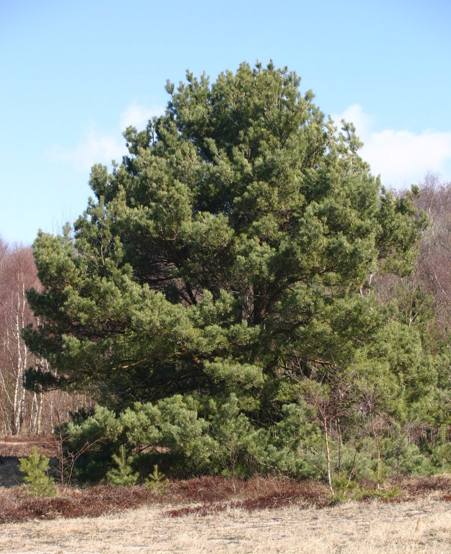 Pinus sylvestris: Phenotype as seen in solitary trees under protected conditions.